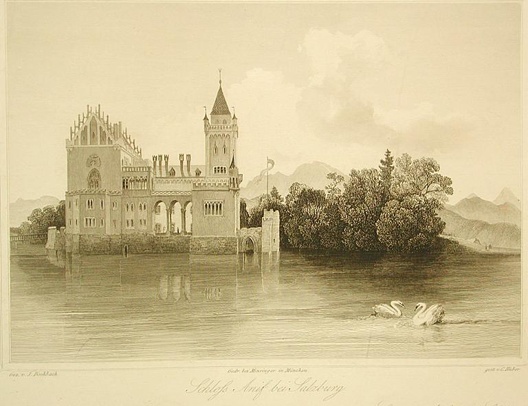 Anif Palace in Austria near Salzburg, old steel engraving